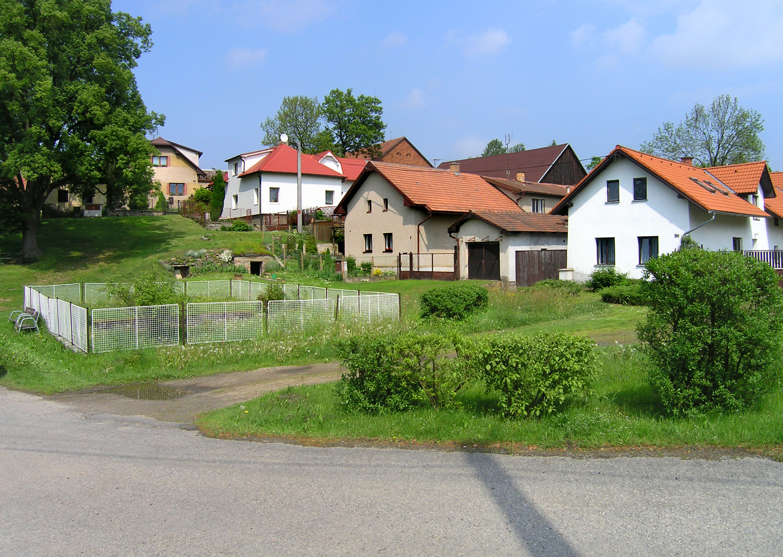 Common in Kyjov village, Czech Republic